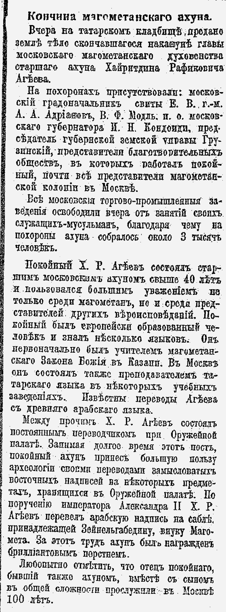 Некролог в газете Утро России за 26.02.1913